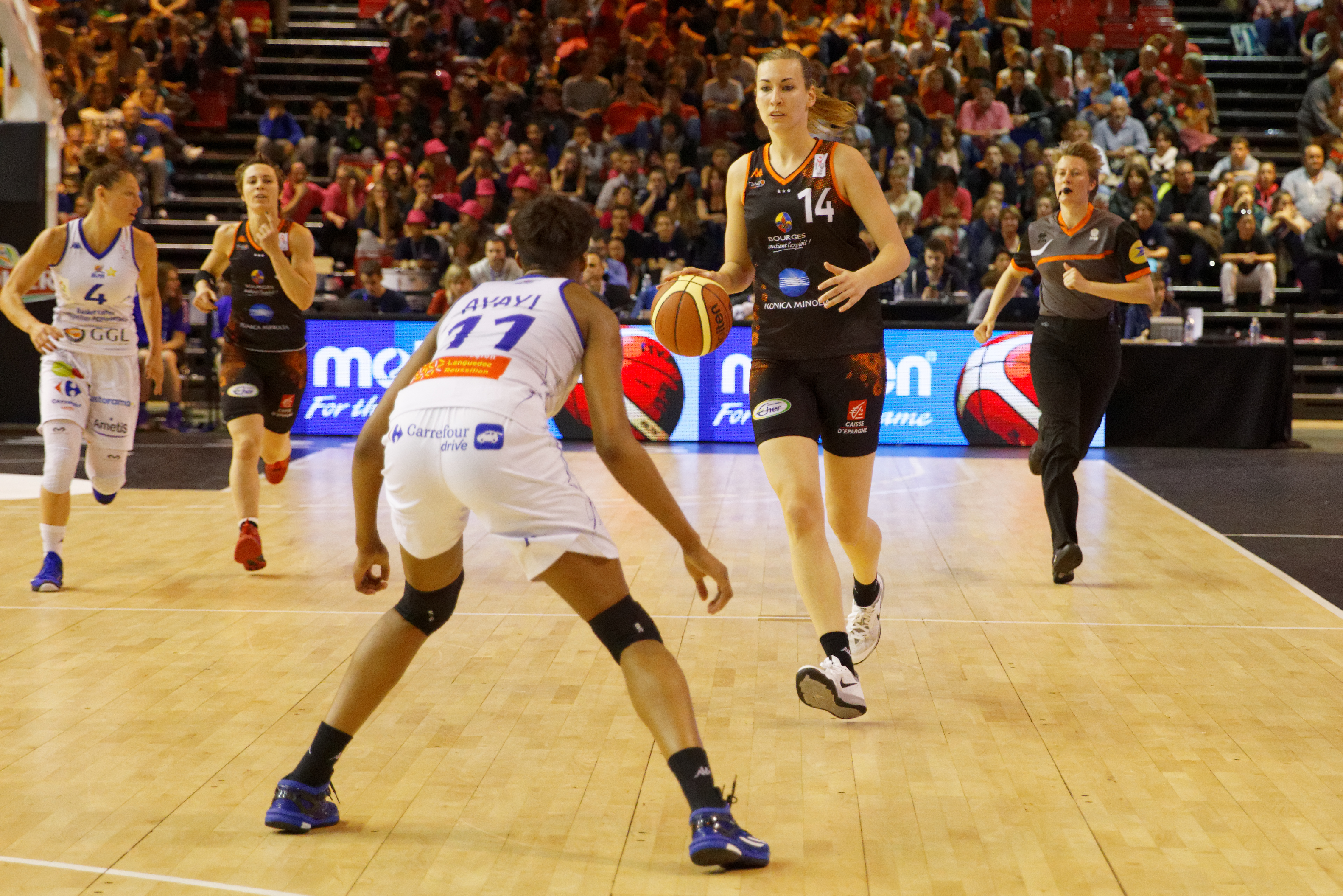 Final of the French Basketball Cup, Lattes-Montpellier vs Bourges, 2nd May 2015.